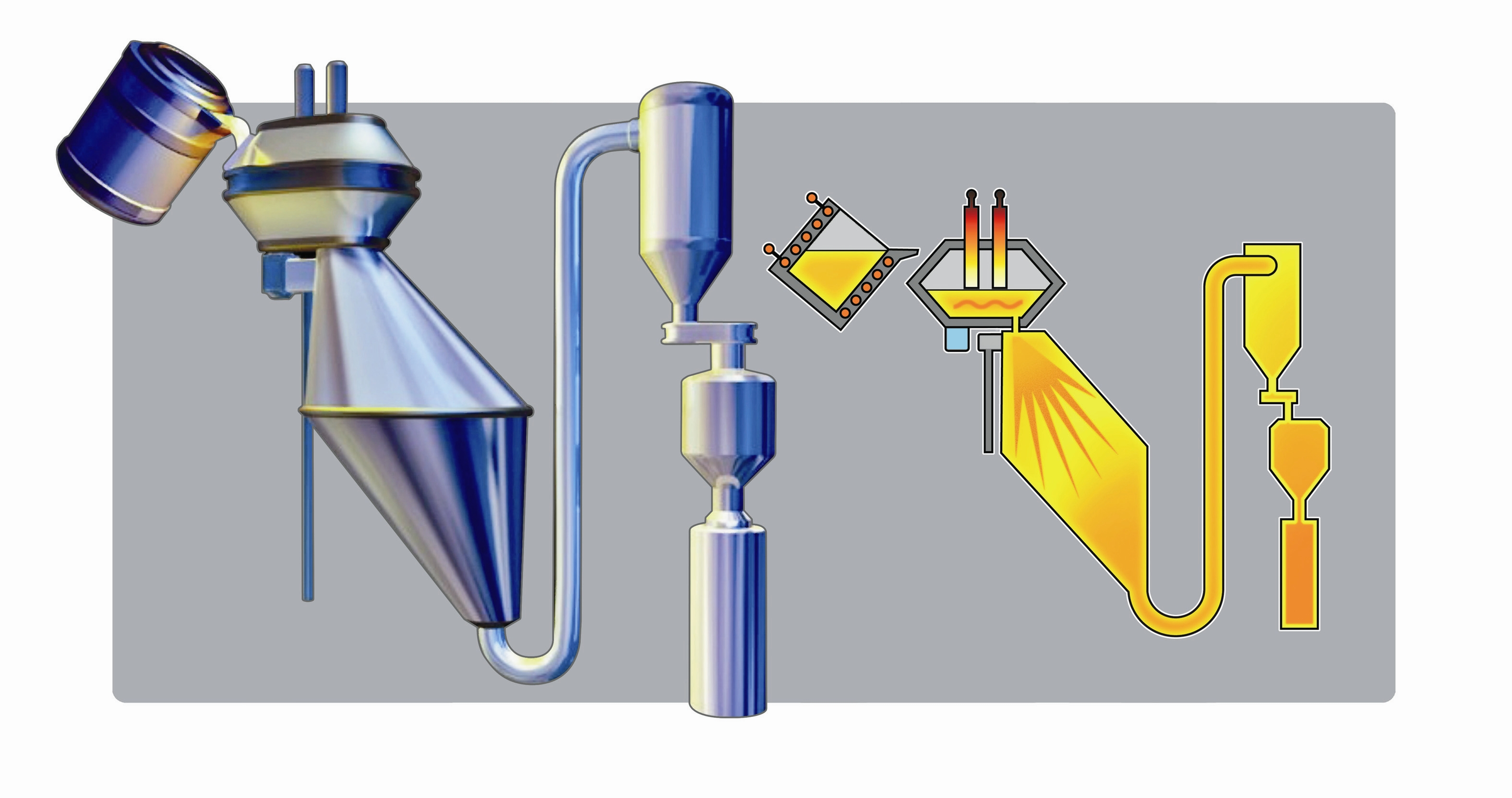 Powder metallurgy process: Manufacturing of HIP:ed capsules containing steel powder. Uddeholms AB.